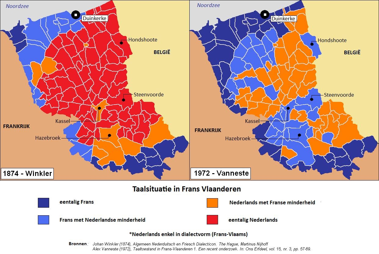 Language situation in French Flandres.